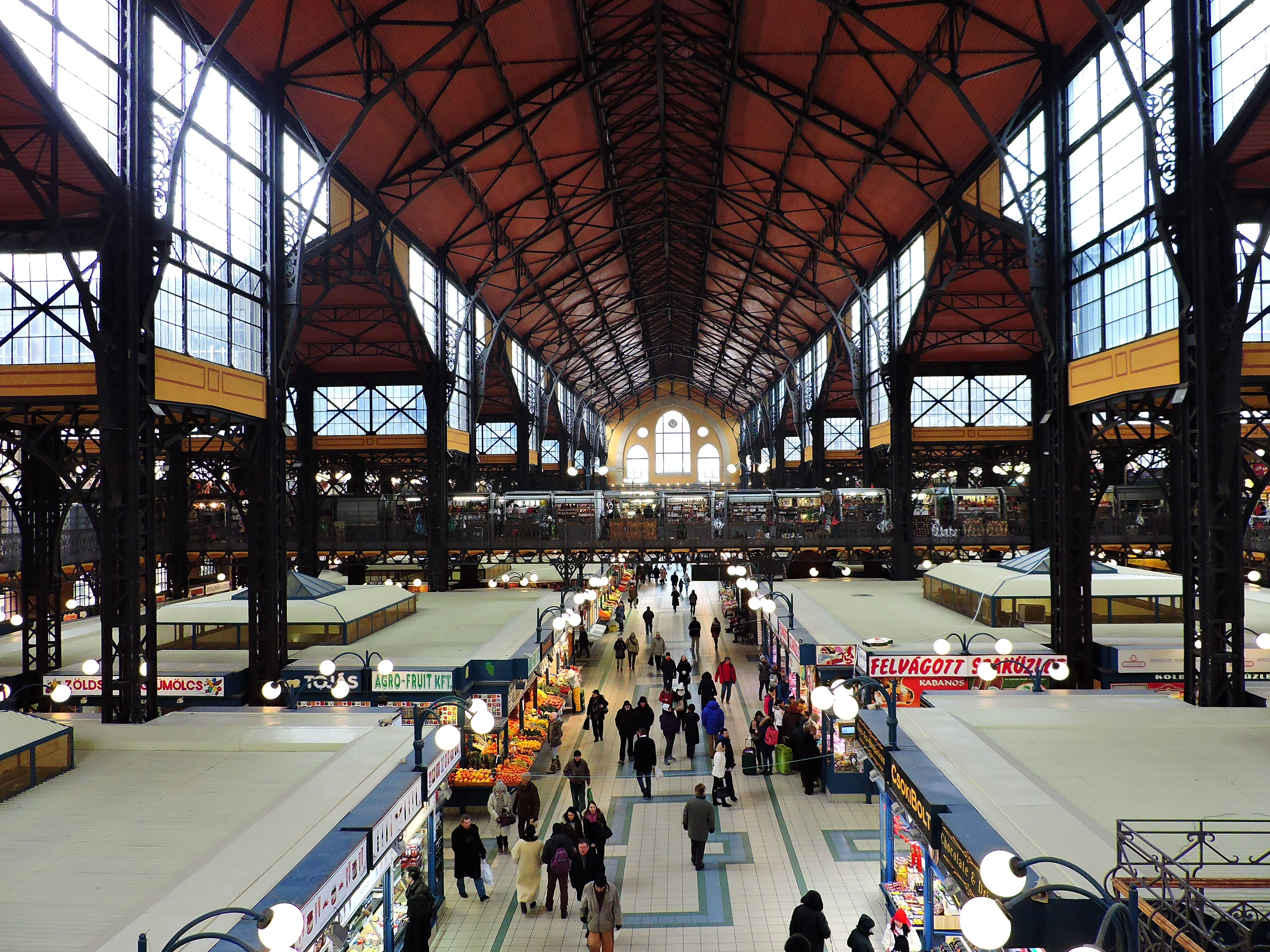 Great Market Hall (Nagyvásárcsarnok), Budapest